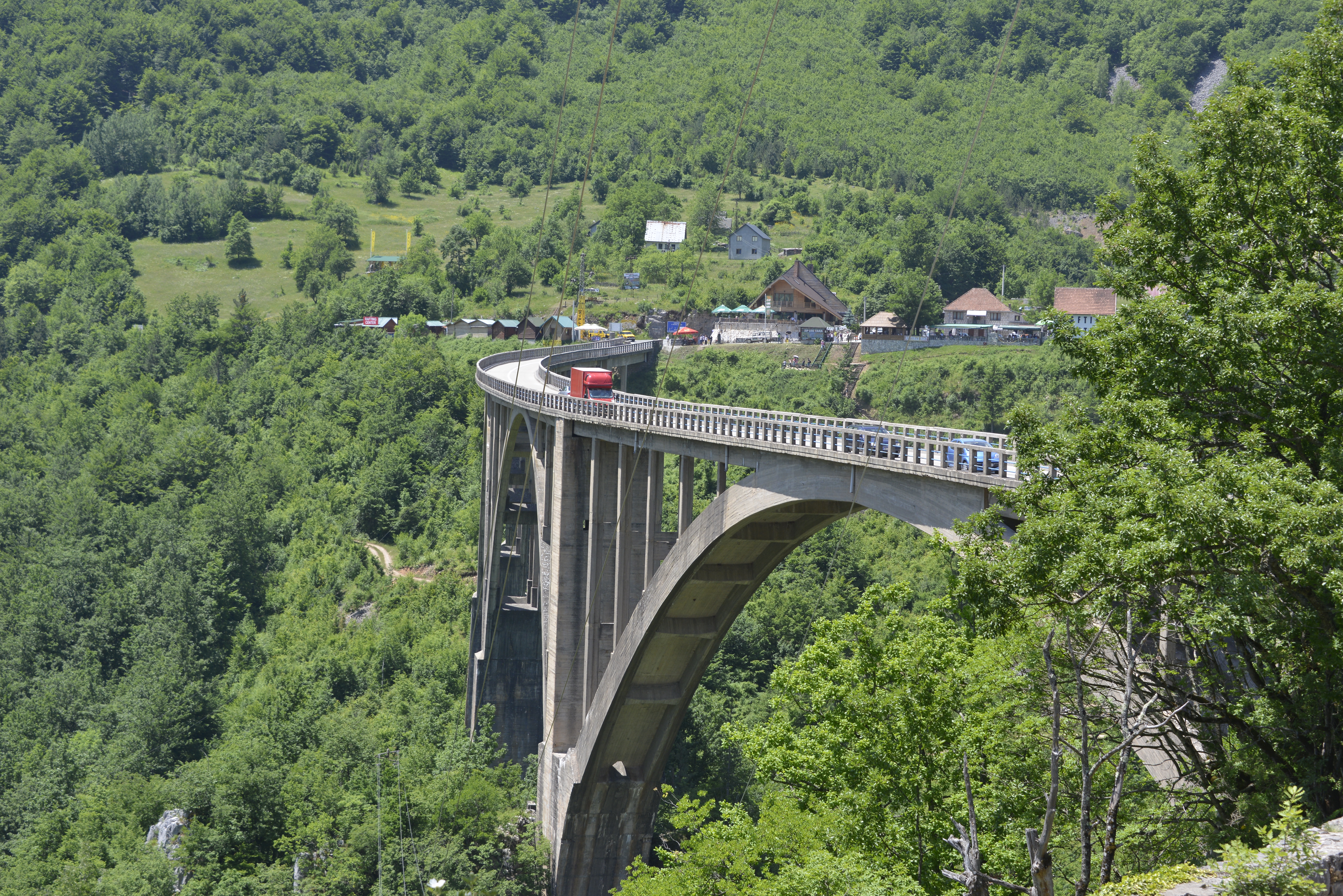 Đurđevića Tara bridge, over Tara river, near Žabljak, Montenegro